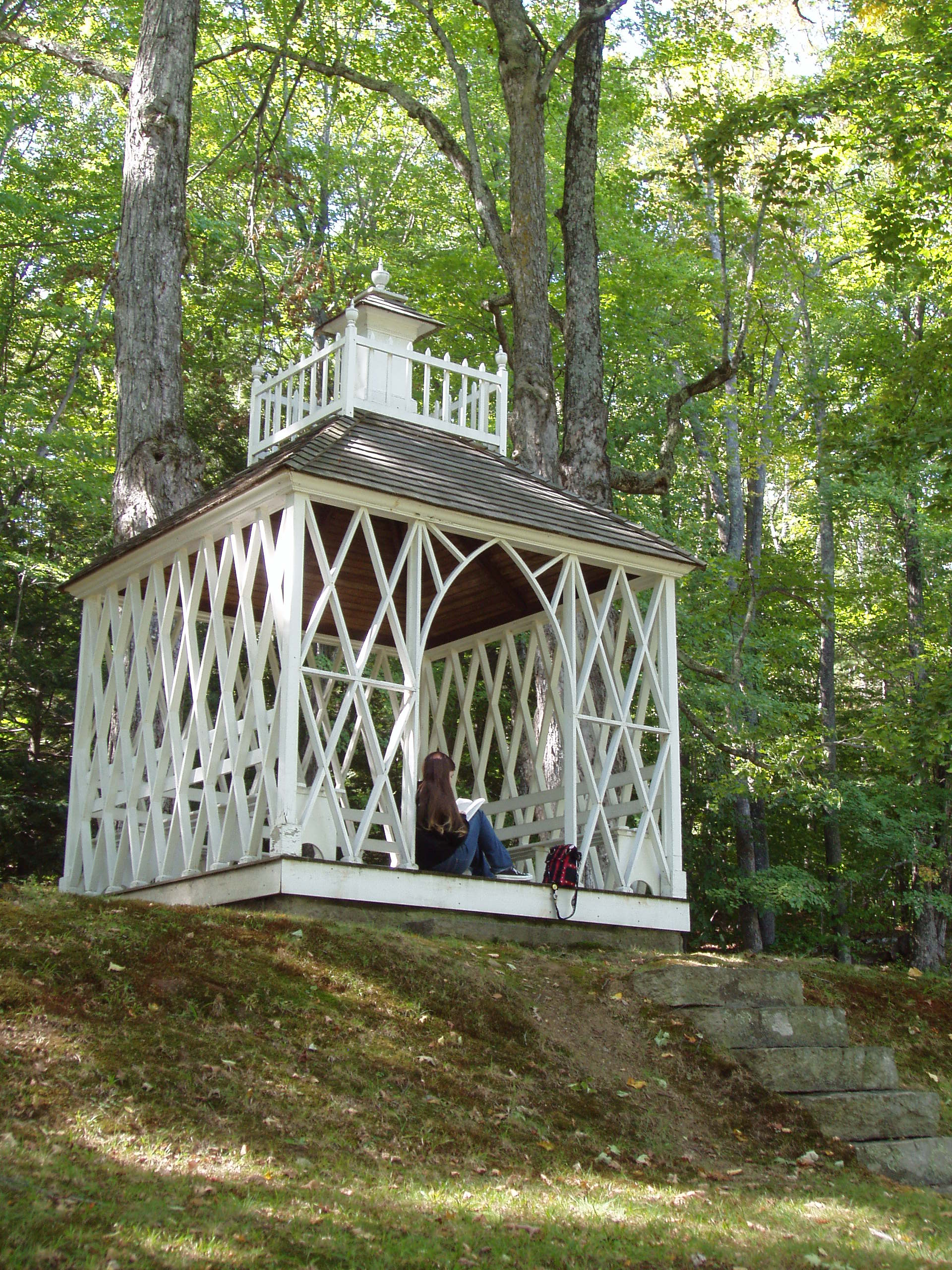 Barrett House - New Ipswich, New Hampshire. The summerhouse at the top of the allee, behind the house. Photograph taken by me, October 2005.